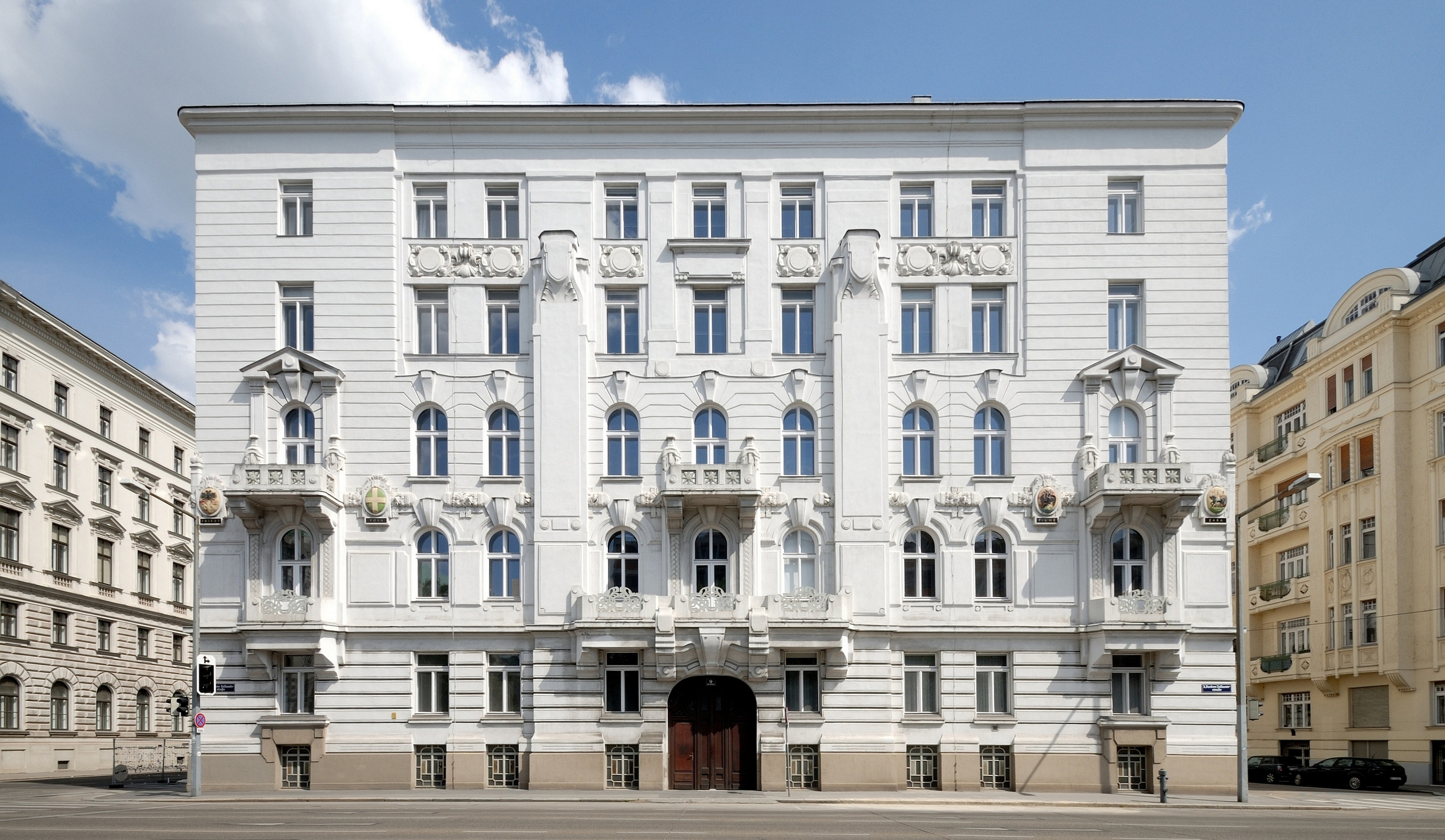 Former Marine Departement of the Ministry of War